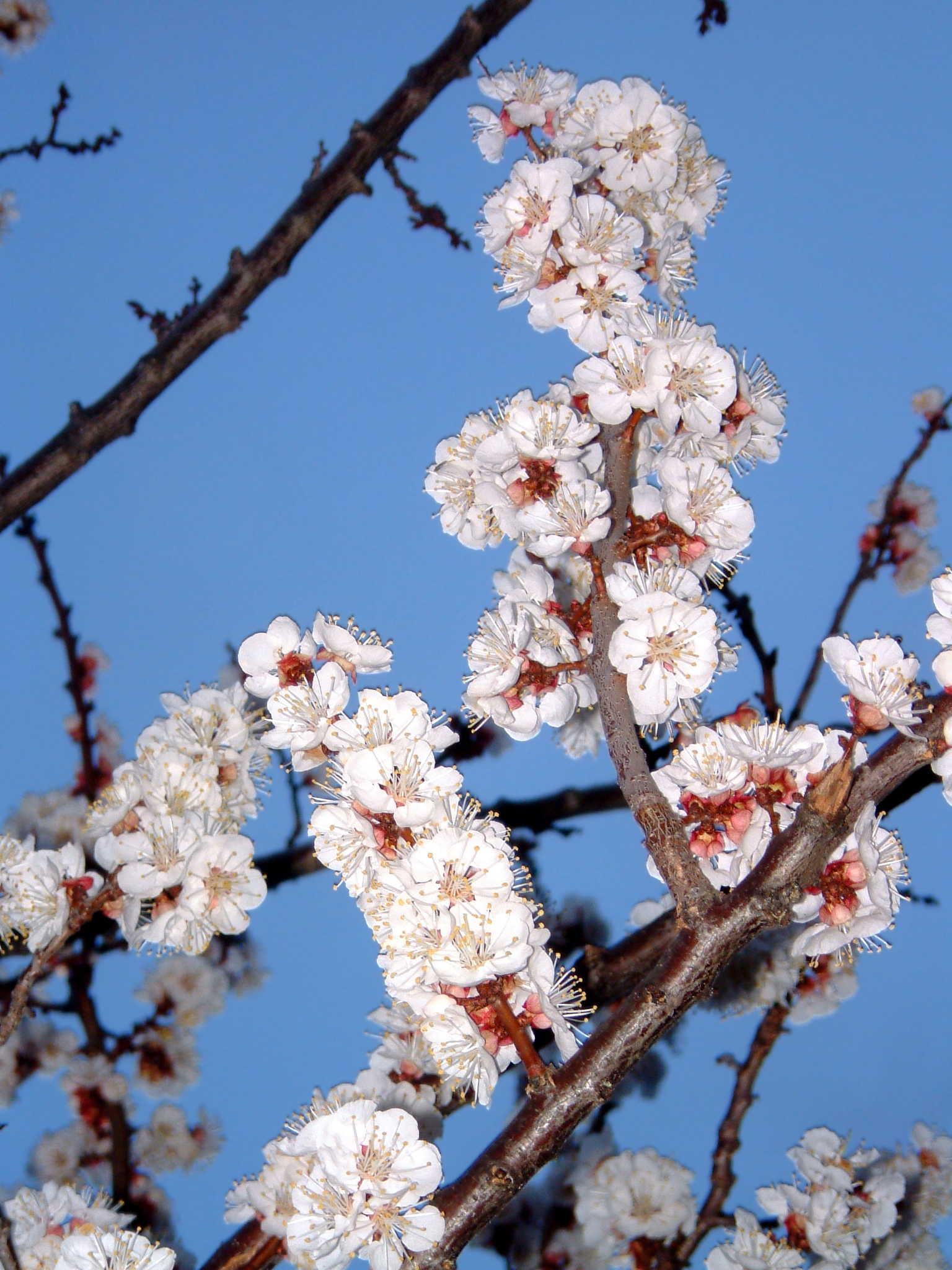 detail of apricot blossom in San Jose, California. Photo taken and copyright John Pozniak on February 26, 2005, and released under the GFDL. The photo was taken lying on my back, at sunset, with an overcast sky, using a flash. One taken without the flash of the same tree (but not the same branch) at about the same time, is at image:Apricot blossom detail2.jpg